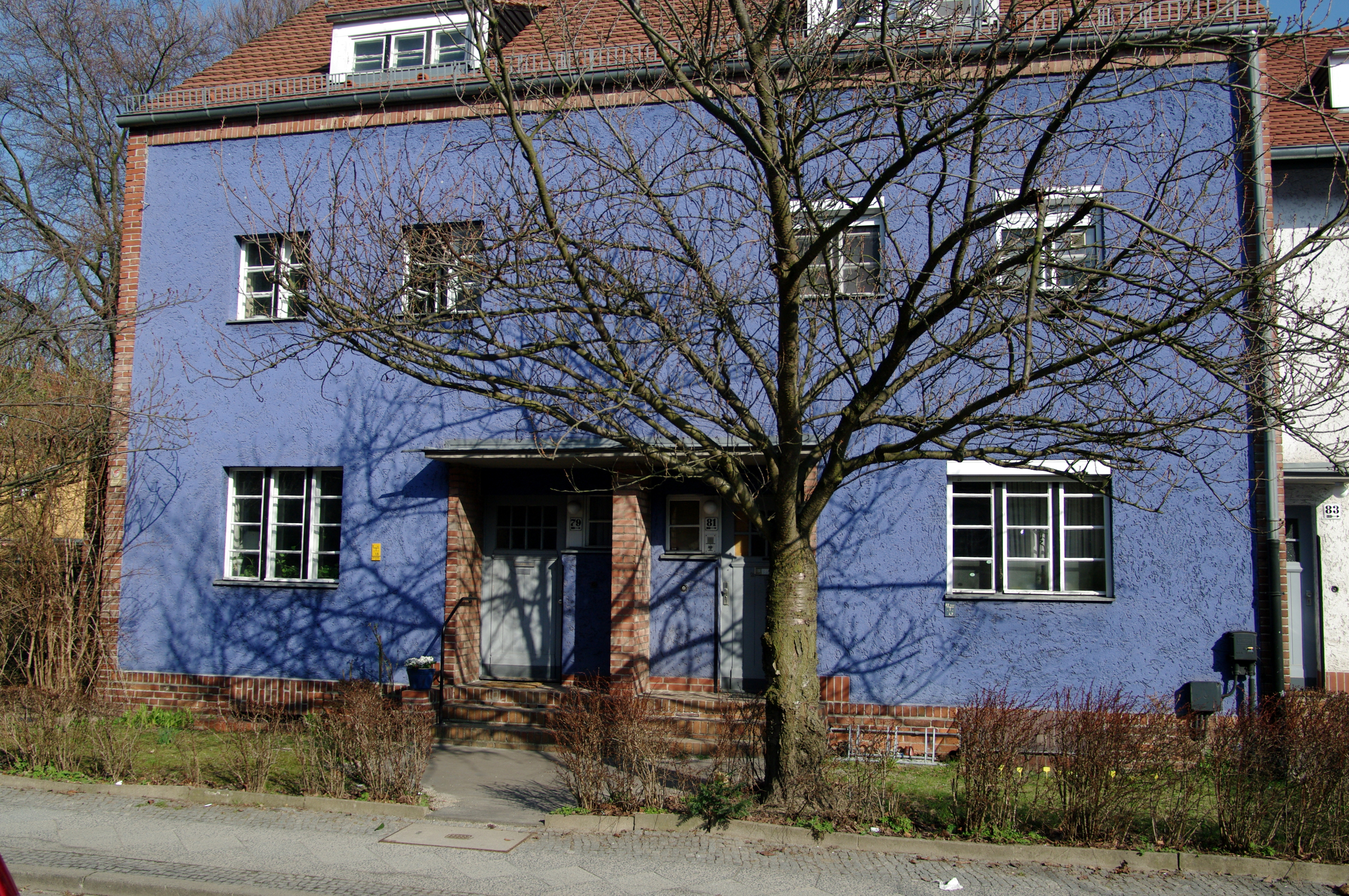 House in the Onkel-Bräsig-Straße in Berlin-Britz, part of the world heritage Hufeisensiedlung.